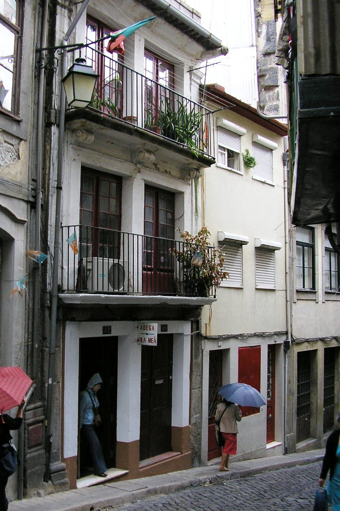 "Adega Vila Meã", traditional wine shop and restaurant in Porto, Portugal.